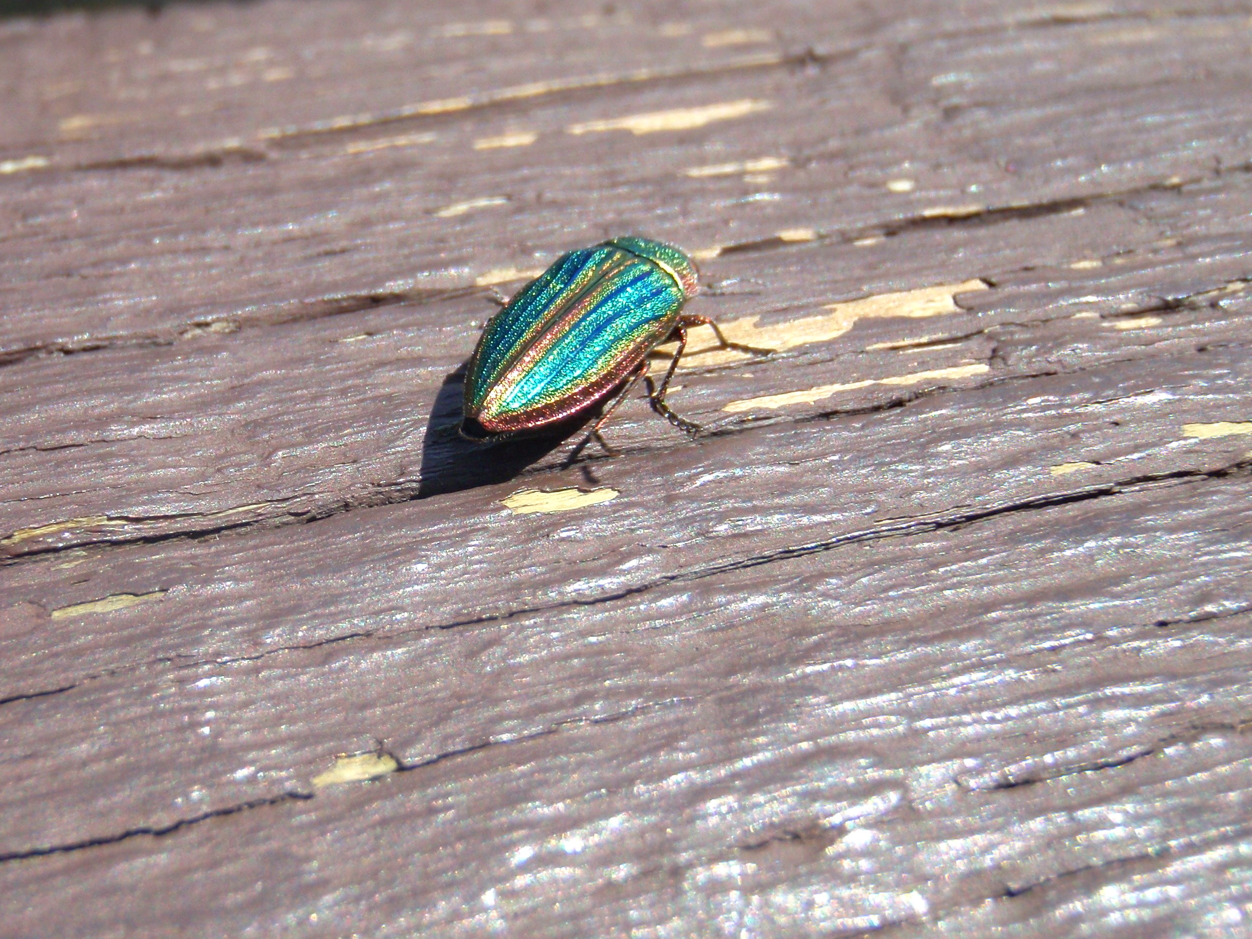 Golden Buprestid; Cypriacis aurulenta, taken near Mammoth Hot Springs in Yellowstone National Park